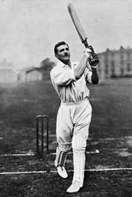 CB Fry, A posed action photo of the great all-rounder in 1899 This picture is the copyright of the Lordprice Collection and is reproduced on Wikipedia with their permission Source URL